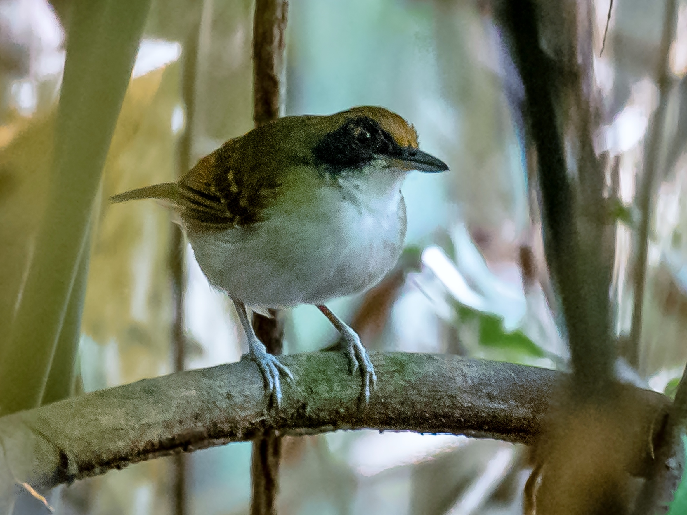 Ash-breasted Antbird (female); Anavilhanas islands, Novo Airão; Amazonas, Brazil